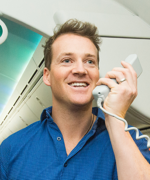 Jules Lund making an announcement on Jetstar's first commercial Boeing 787 Dreamliner flight from Melbourne to the Gold Coast.